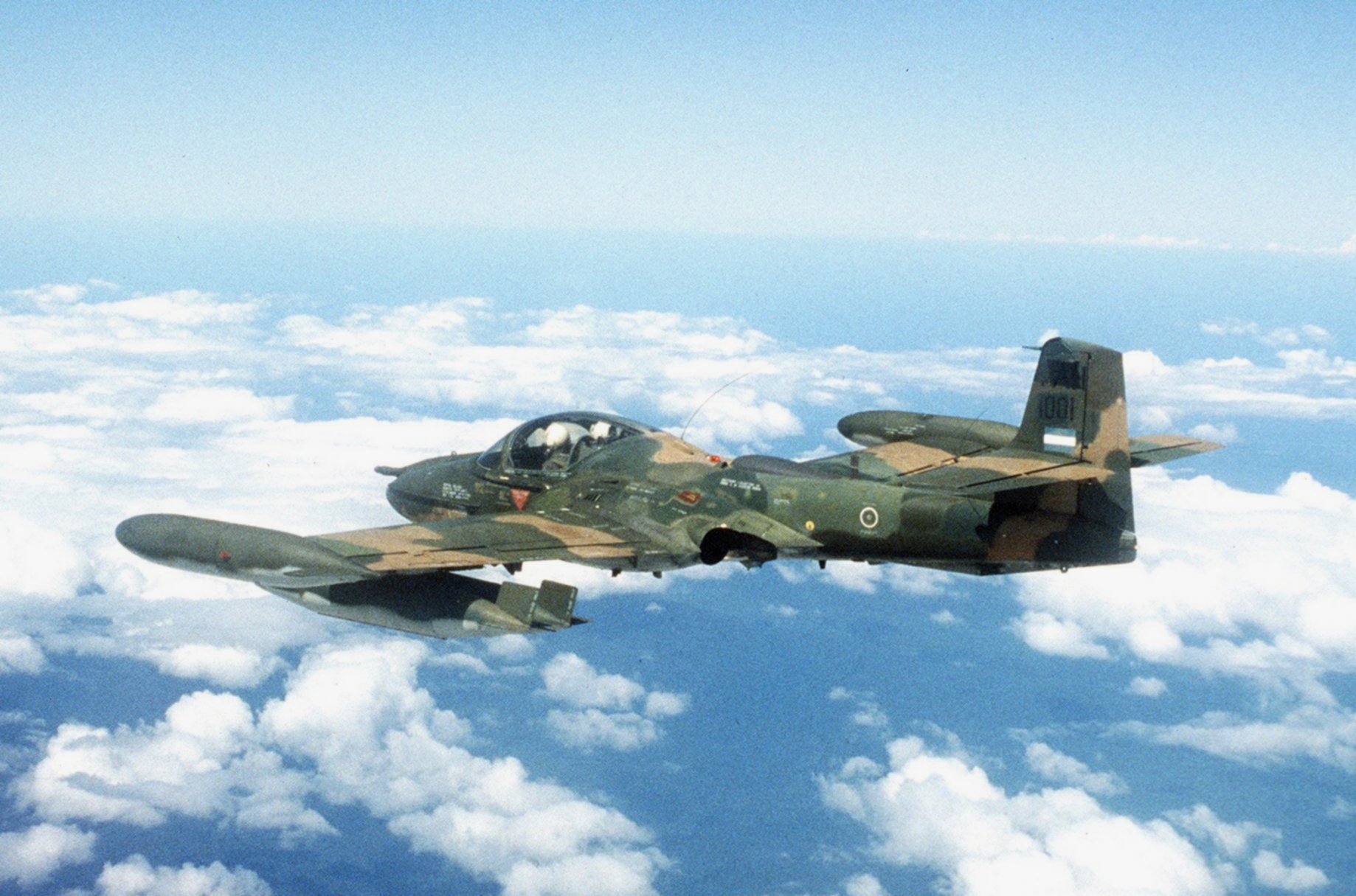 An air-to-air left rear view of a Honduran Air Force A-37 Dragonfly aircraft during the combined U.S./Honduran training operation "Ahuas Tara" (Big Pine).